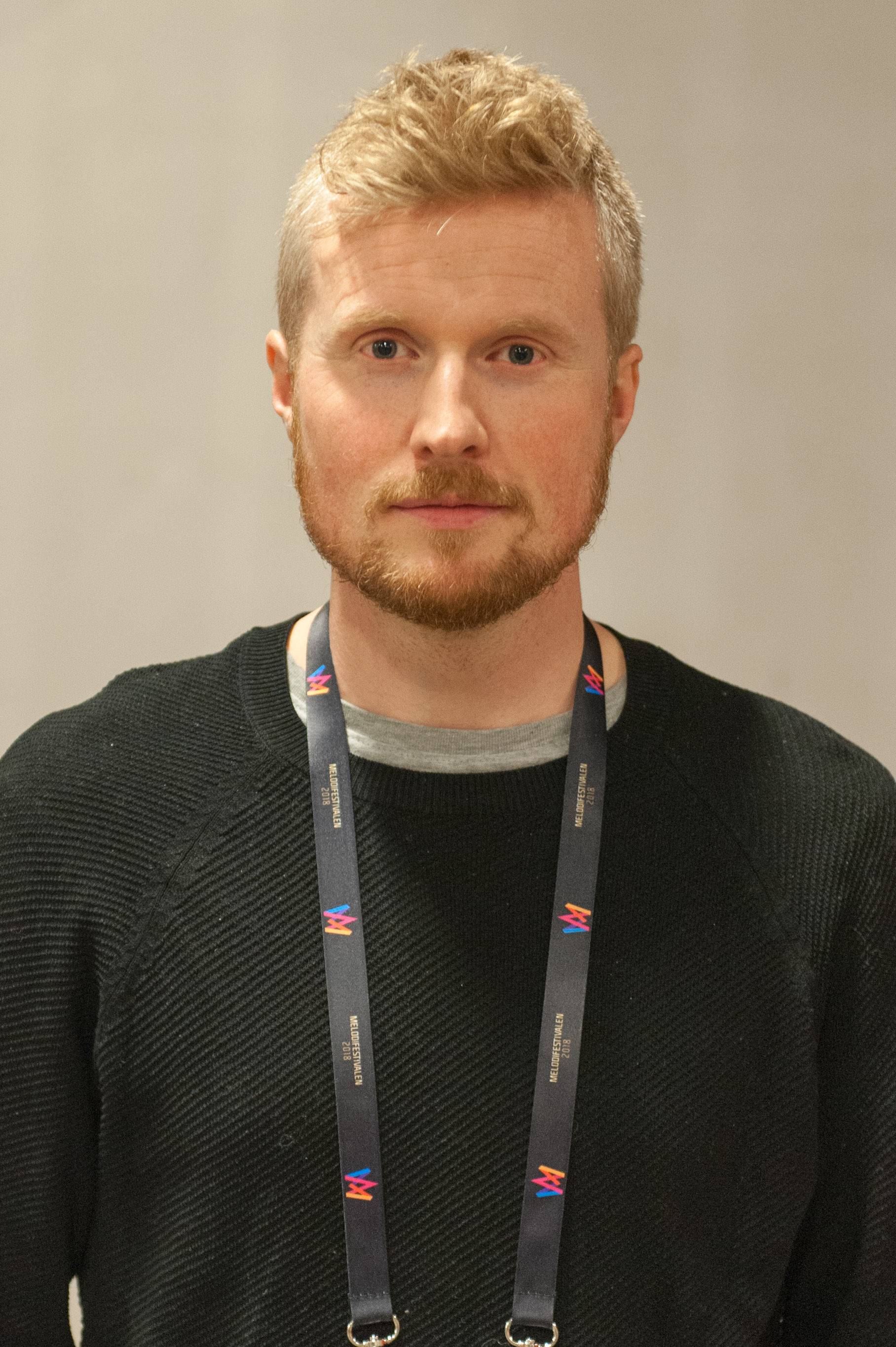 Melodifestivalen 2018 final i Stockholm